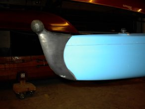 Rubber coated bow of a Pohlus boat